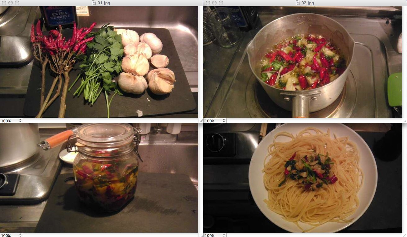 aglio olio e peperoncino cooking